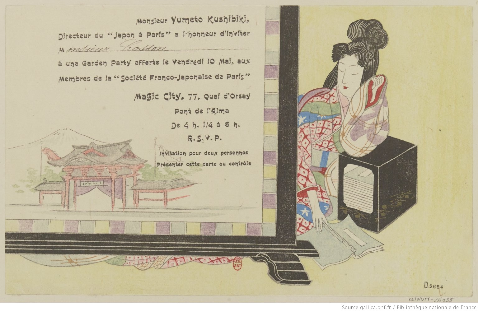 Yumeto Kushibiki's invitation card for a garden party to be held on 10 May [1912] at the Magic City, in collection of the Bibliothèque nationale de France.